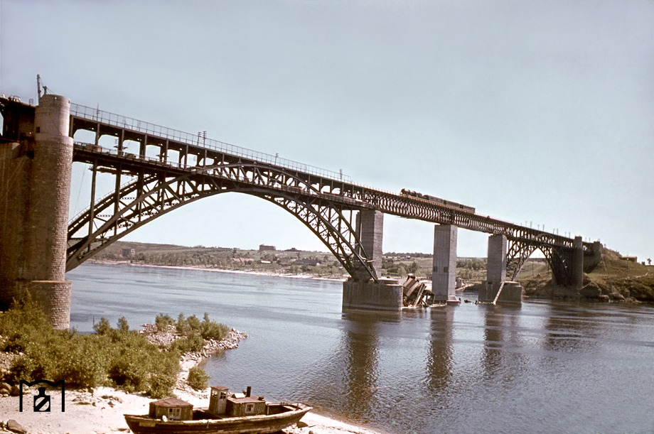 Restored bridge across the New Dnieper river, connecting Zaporozhye city and Khortitsa island, 1943 year